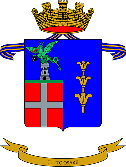 Coat of Arms of the 21° Engineer Regiment; Italian Army.